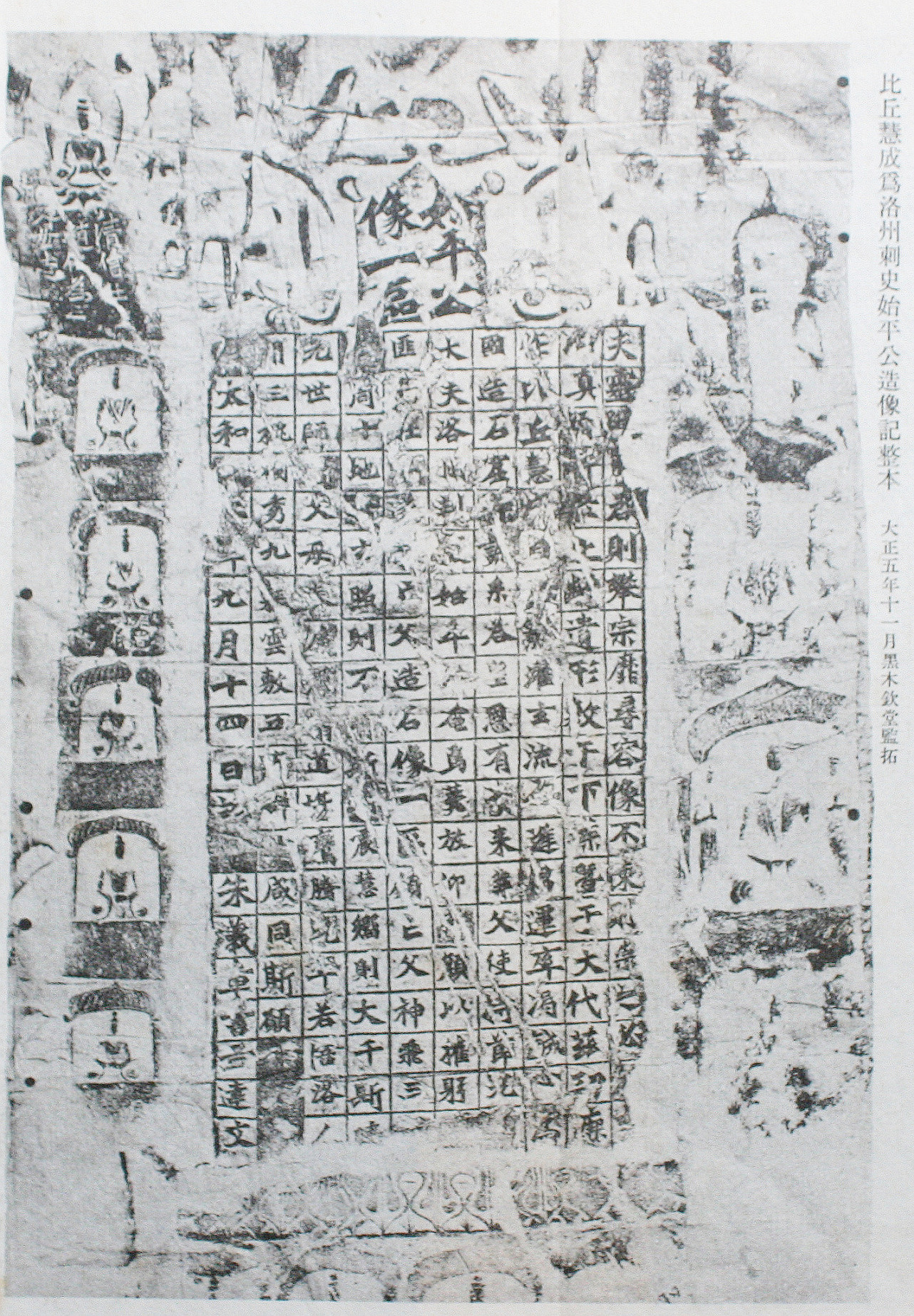 Rubbing Duc Shi Ping Inscription of Buddha ACE498, Ku-yang Cave at Lung-men, Honan Province, China